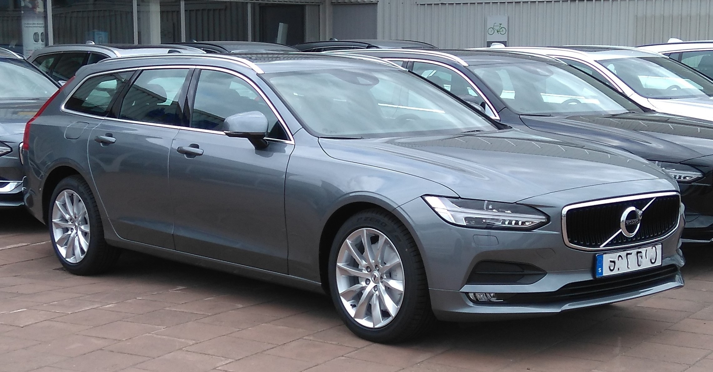 Volvo V90S (SPA)